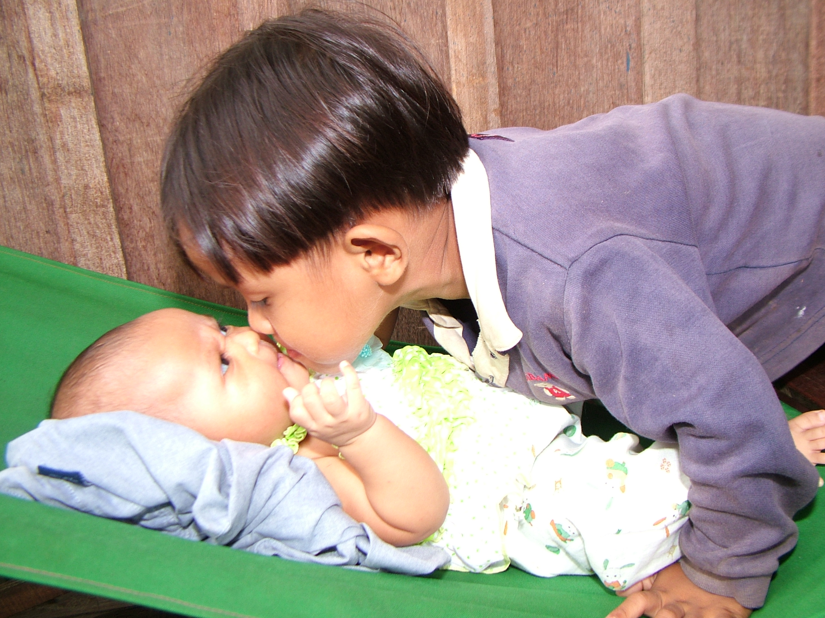 This picture by Sovanna Ly -csc- can be used for any purpose, provided that his name is credited.